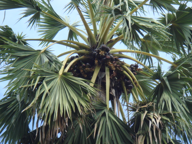 Photograph of tree in Yasothon Province, Thailand. Emphasises the appearance of the fruit on the tree.